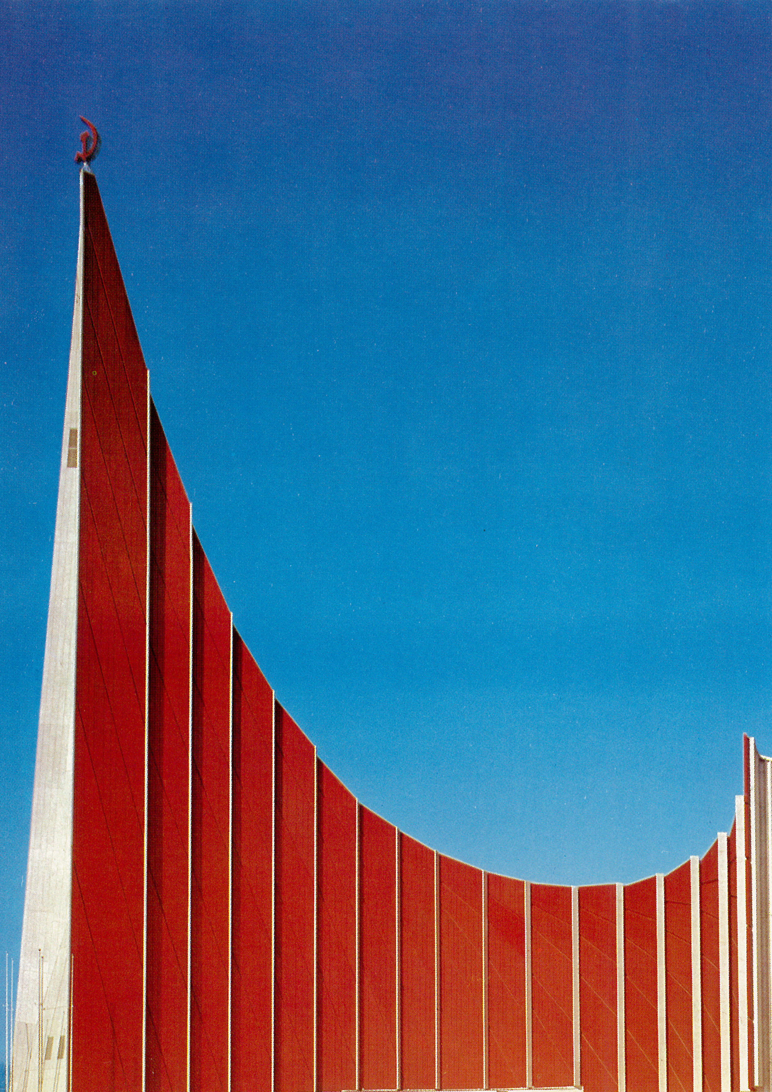 Sovjet Pavilion, Osaka Expo'70